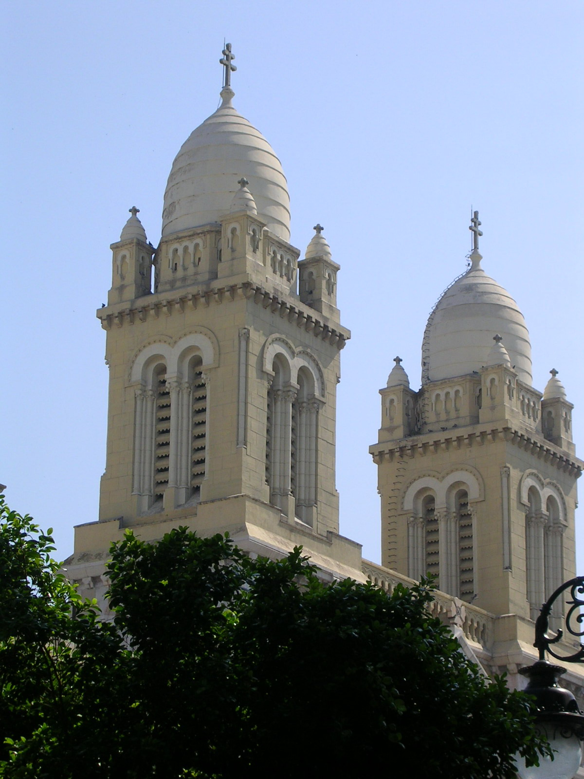 Cathedral Saint-Vincent-de-Paul of Tunis — bell towers. Vandal B, 2005